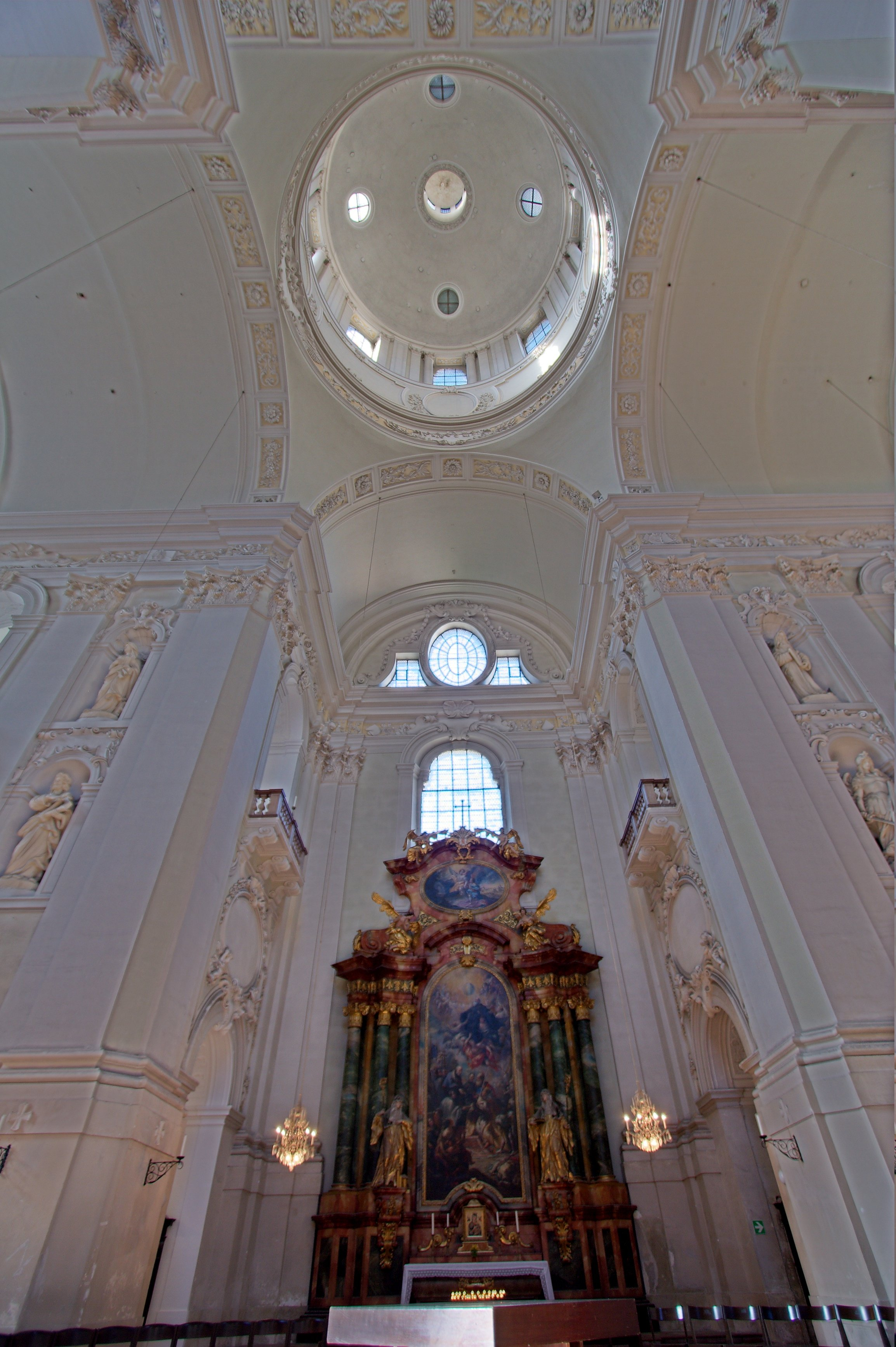 Austria, Salzburg, Kollegienkirche